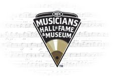 Official Logo